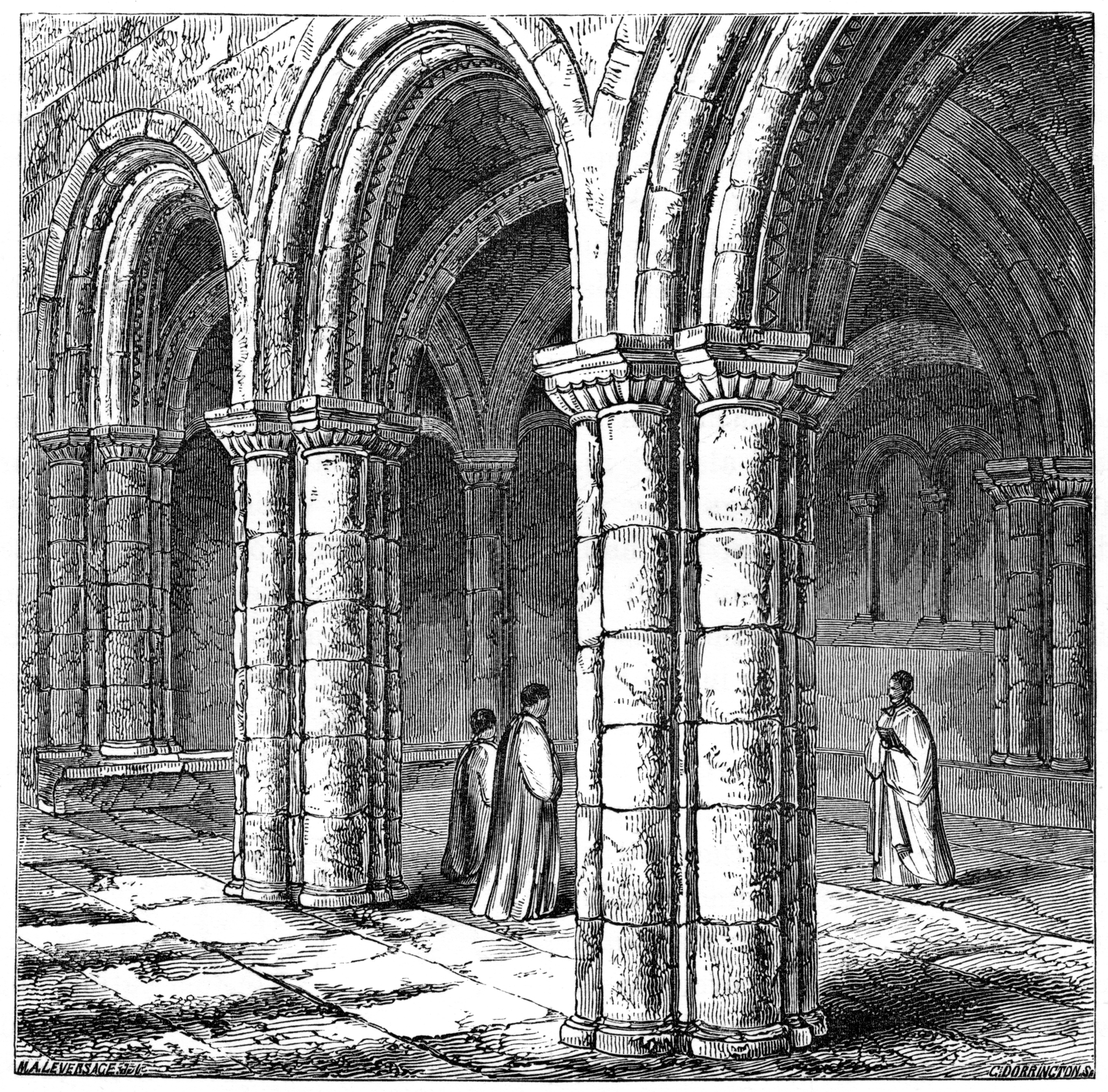 Bristol Cathedral chapter room